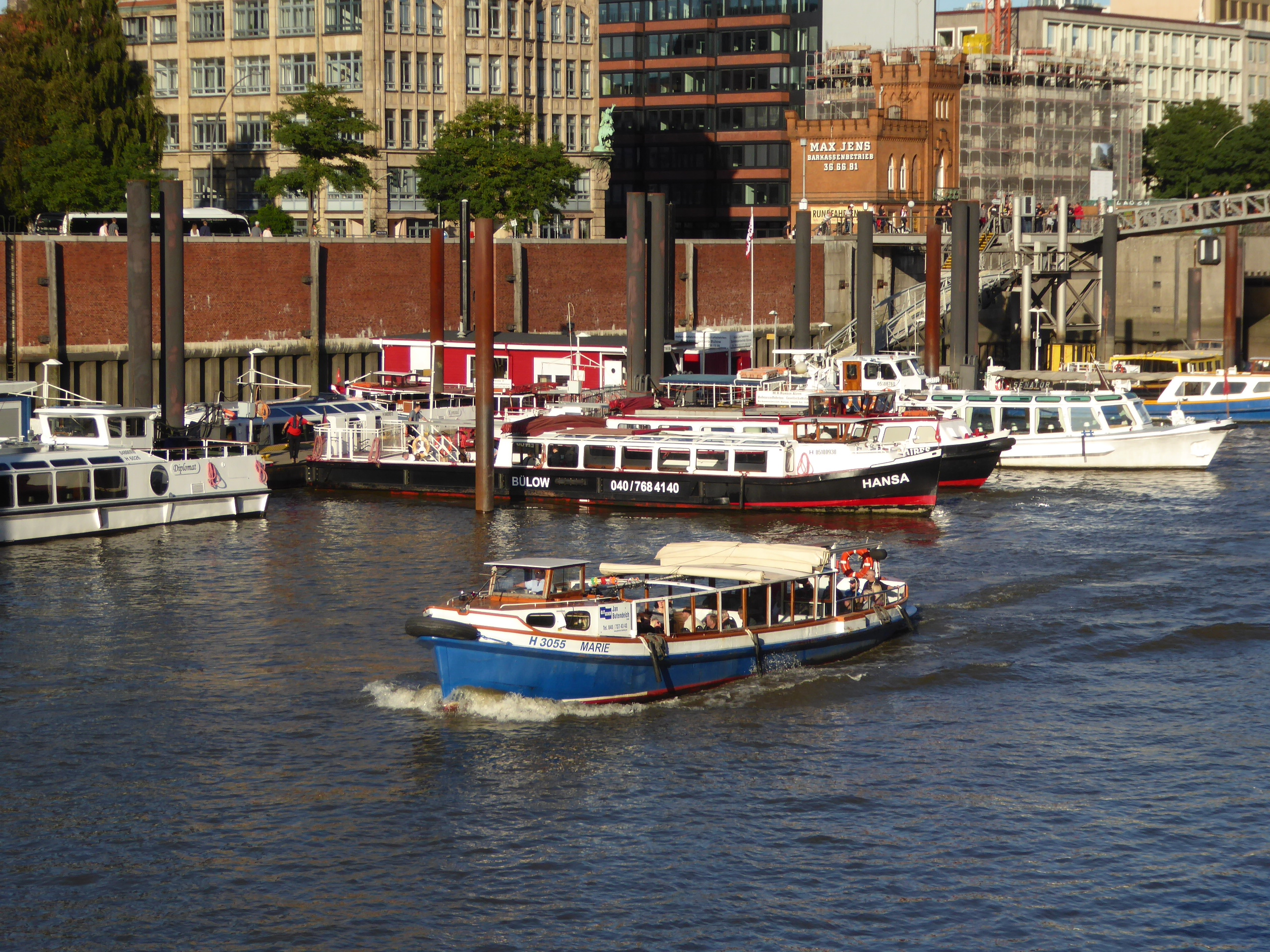 The ship Marie from 1959 in Binnenhafen in Hamburg. The ship was known as Irma II until a collision in 2016.